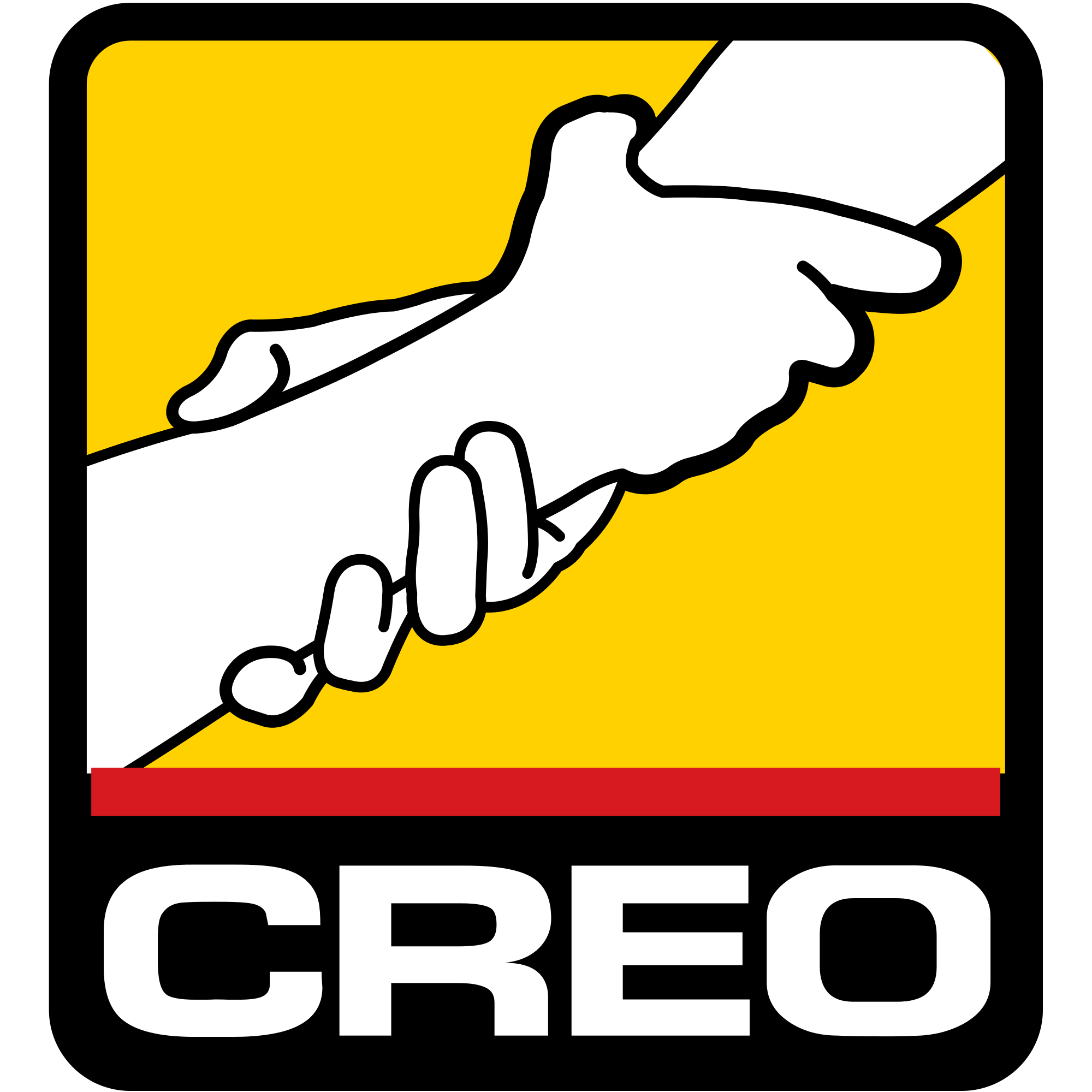 Old logo CREO